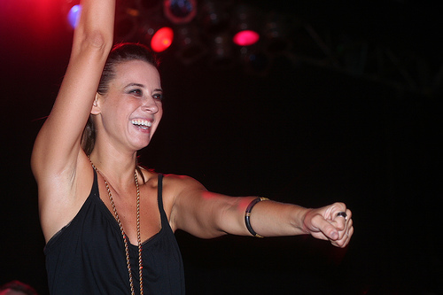 Performing at the Theatre of the Living Arts, Philadelphia, 12th June 2006